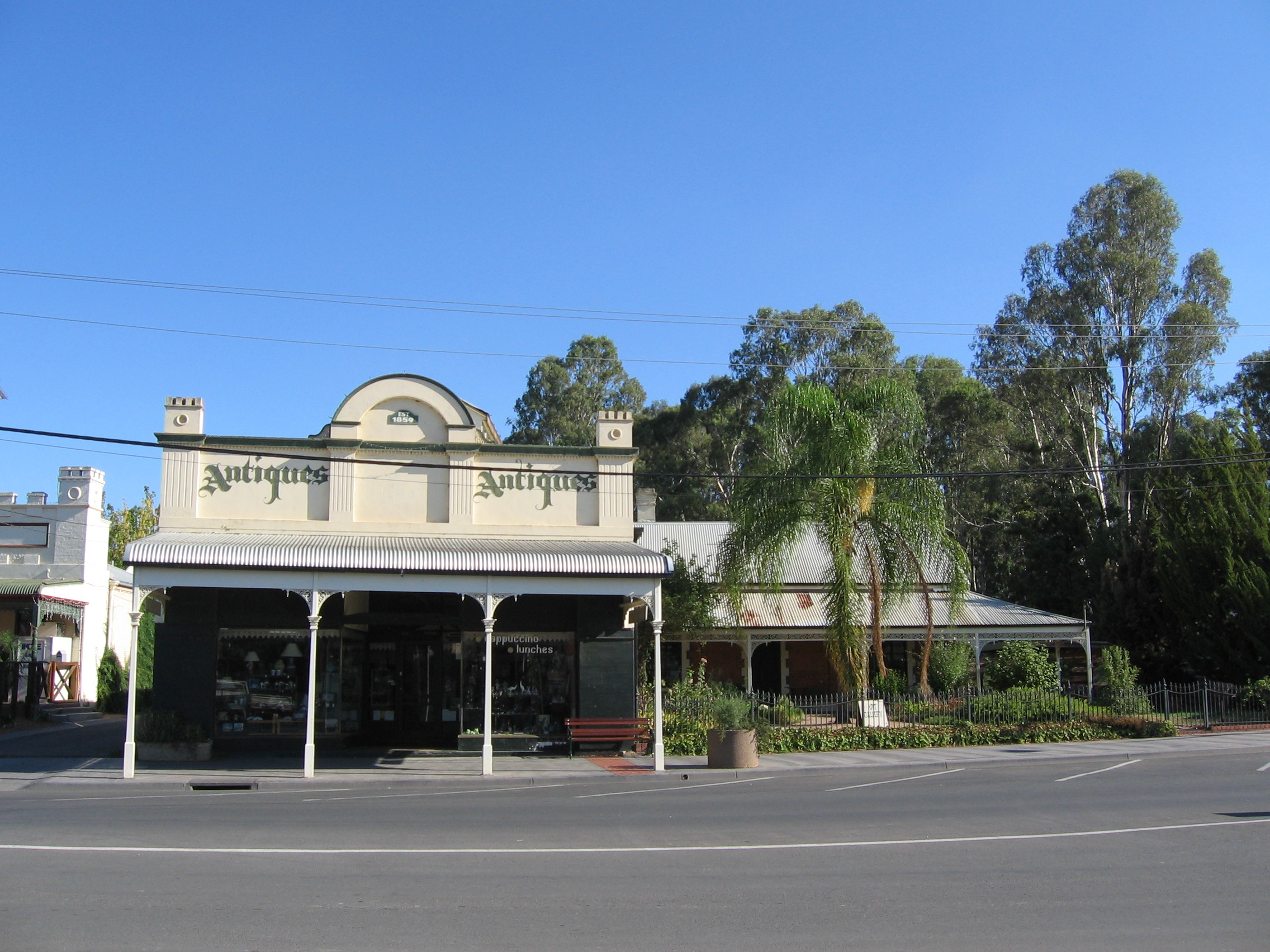 Antiques store in Tocumwal, New South Wales.